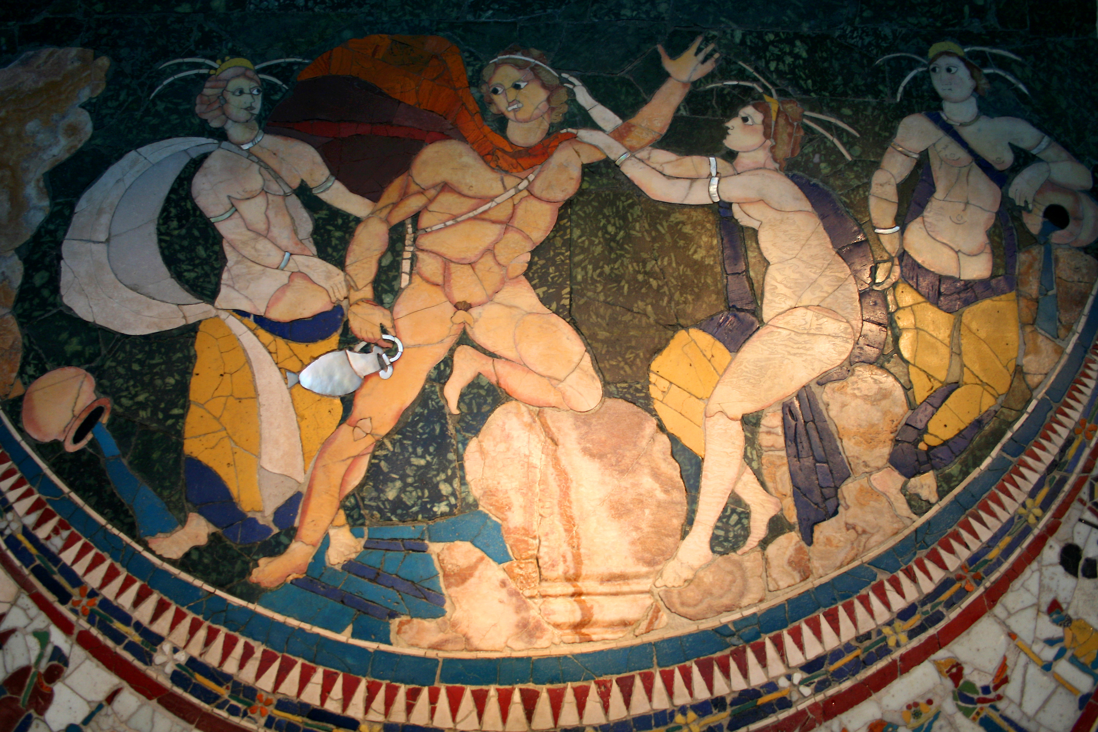 Opus sectile panel with the rape of Hylas by the Nymphs. Roman artwork, first half of the 4th century. From the basilica of Junius Bassus on the Esquiline Hill.